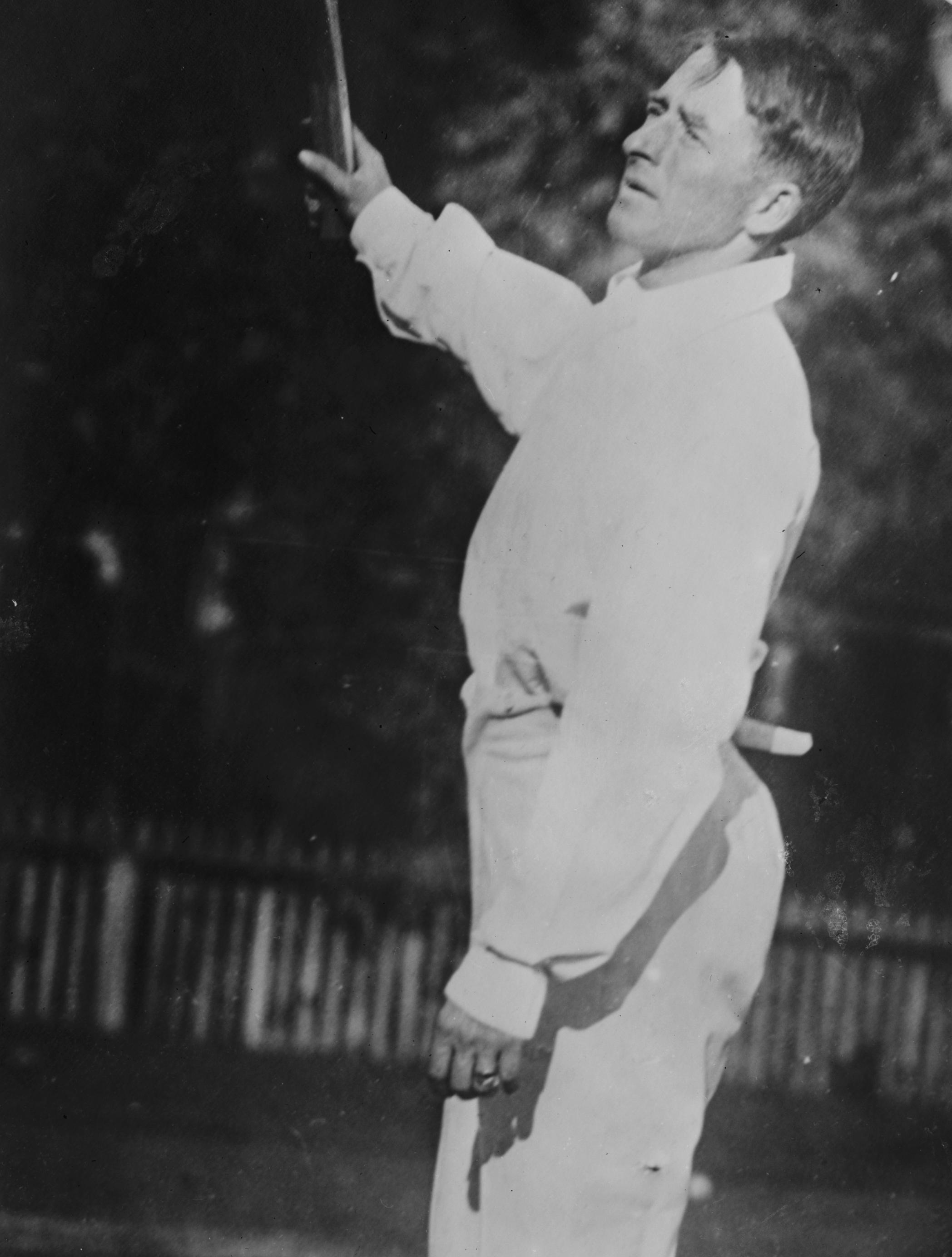 Maj. J.G. Ritchie, Olympic Tennis Champion